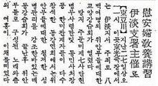 Leedam police station gave a culture lecture for comfort women on January 27, 1961.